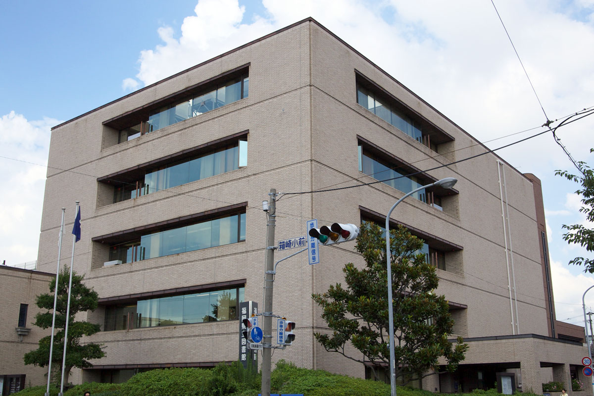 Fukuoka Prefectural Library, in Fukuoka city, Japan.